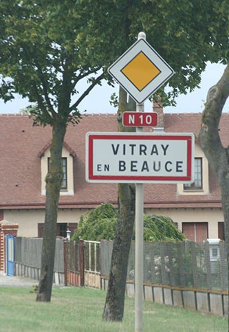 Vitray-en-Beauce (France) photo token by M. Gasmi (2006)